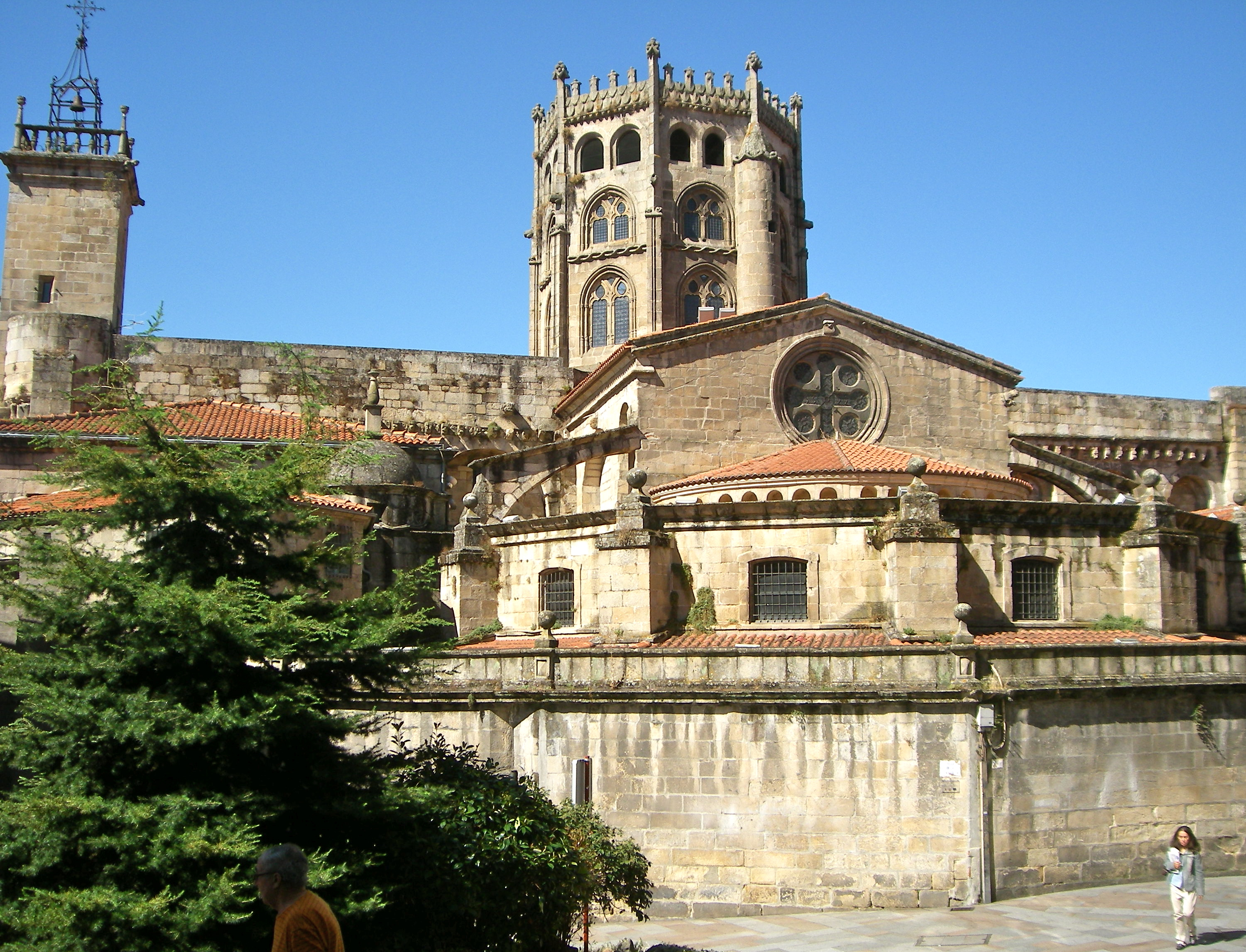 Ourense cathedral in western Spain. Uploaded from Flickr.Ourense Cathedral Ourense Cathedral Native nameCatedral de OrenseLocationOurense, Galicia, (Spain)Coordinates42° 20′ 11.2″ N, 7° 51′ 46.3″ W EstablishedMiddle AgeWeb page control : Q1361548 VIAF: 147929516 LCCN: n91120839 BIC: RI-51-0000771 GND: 4814021-1 SUDOC: 101031556 WorldCat institution QS:P195,Q1361548